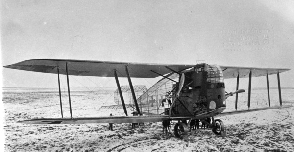 PictionID:43639311 - Catalog:16_004665 - Title:Link-Hoffman R I 8/15 - Filename:16_004665.TIF - - - - - - - Image from the Ray Wagner Collection. Ray Wagner was Archivist at the San Diego Air and Space Museum for several years and is an author of several books on aviation --- ---Please Tag these images so that the information can be permanently stored with the digital file.---Repository: San Diego Air and Space Museum